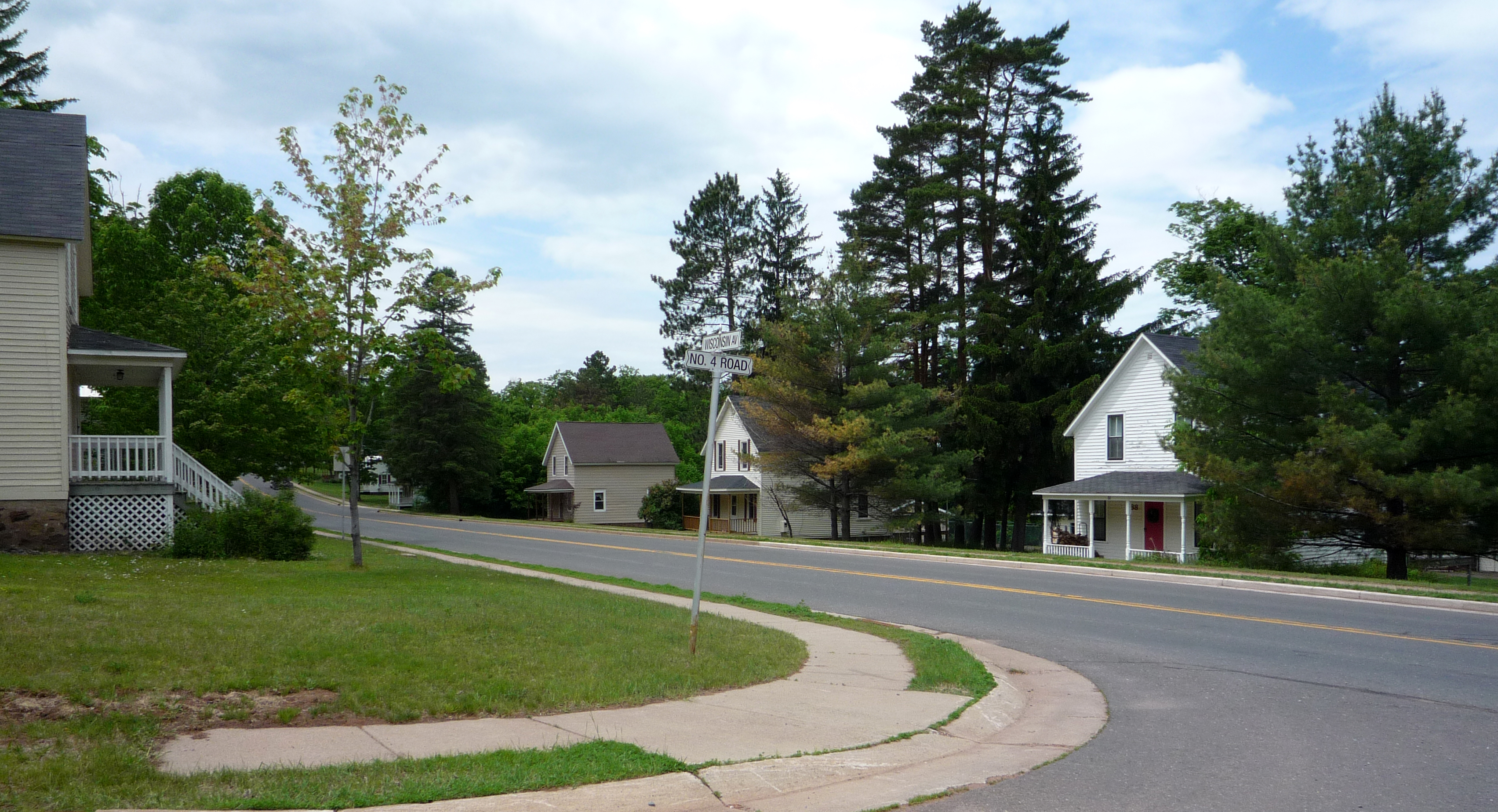 A section of the Montreal Company Location Historic District (on the National Register of Historic Places since 1980), Montreal, Wisconsin, USA.